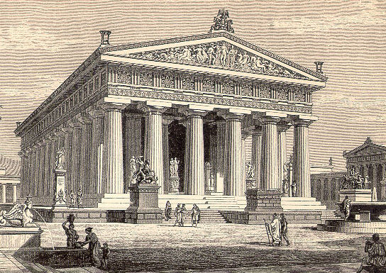 Reconstruction of the Ancient Greek temple of Poseidon at Paestum, in Italy.